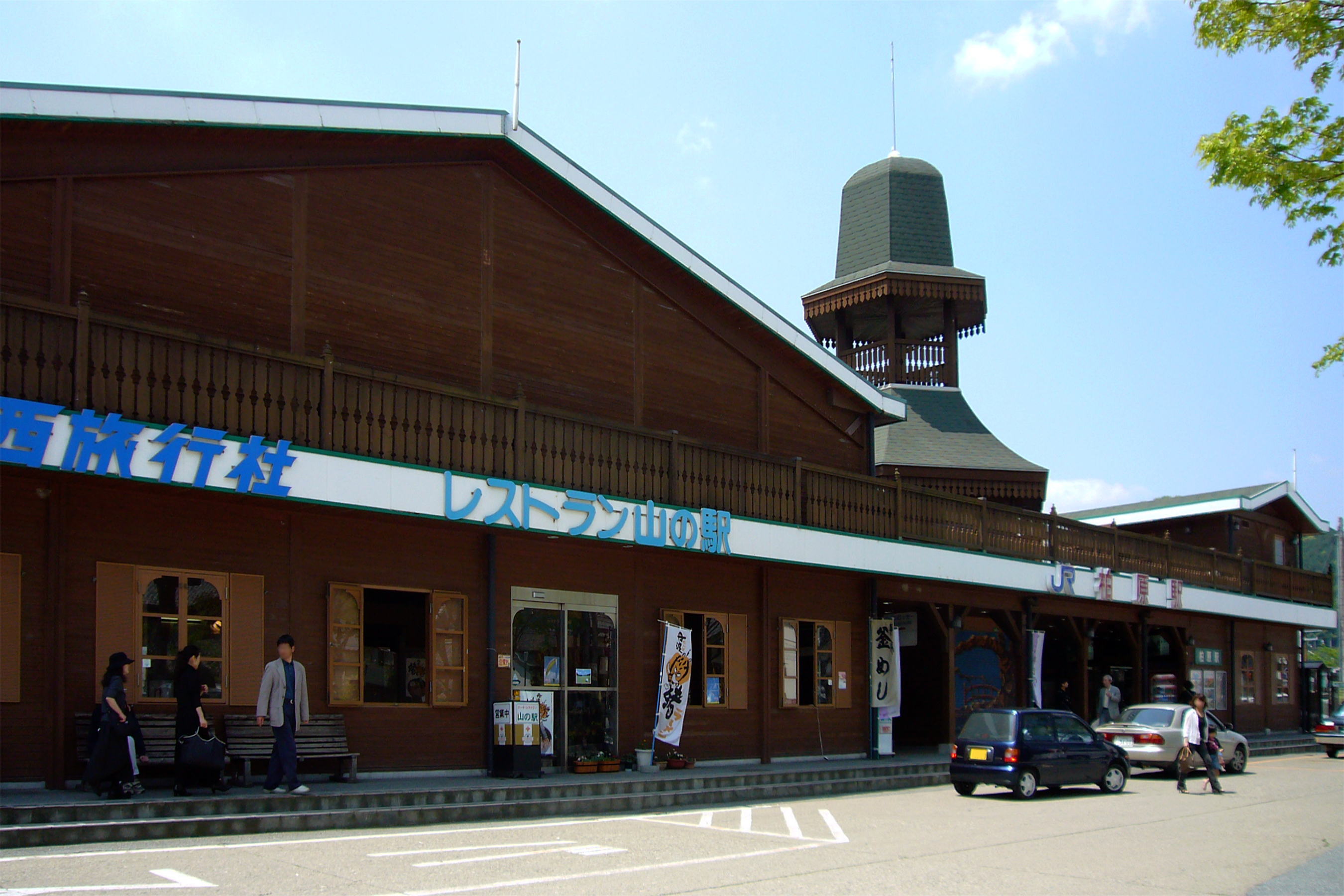 JR Kaibara Station in Tamba, Japan